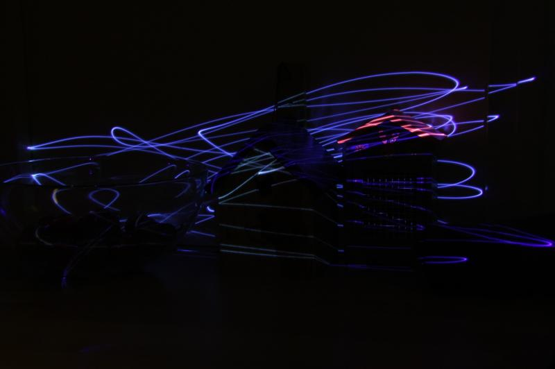 Trails of a 405nm blacklight laser at several objects on some of them clear fluorescence is visible.